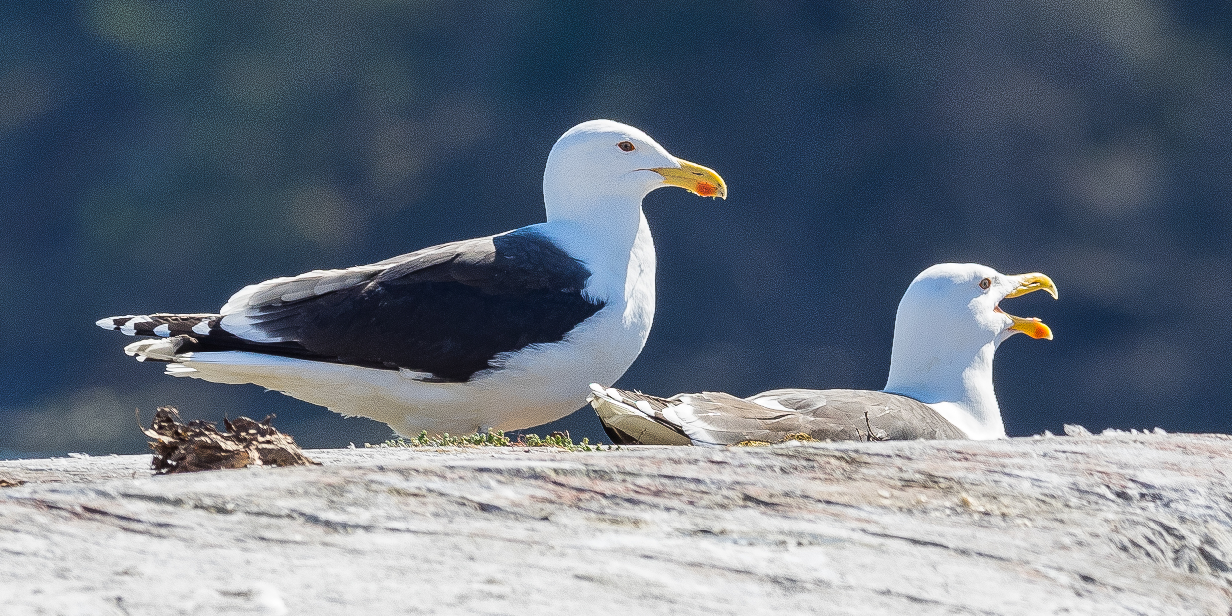 Havstrut, Great black-backed gull, Larus marinus, around Vaxholm, Sweden